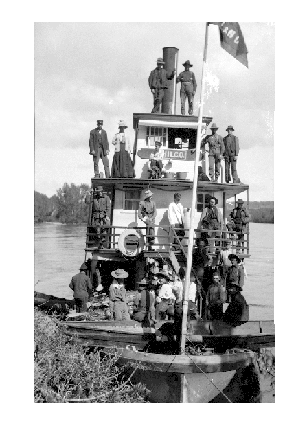 Courtesy Hudson's Hope Museum Copyright Expired